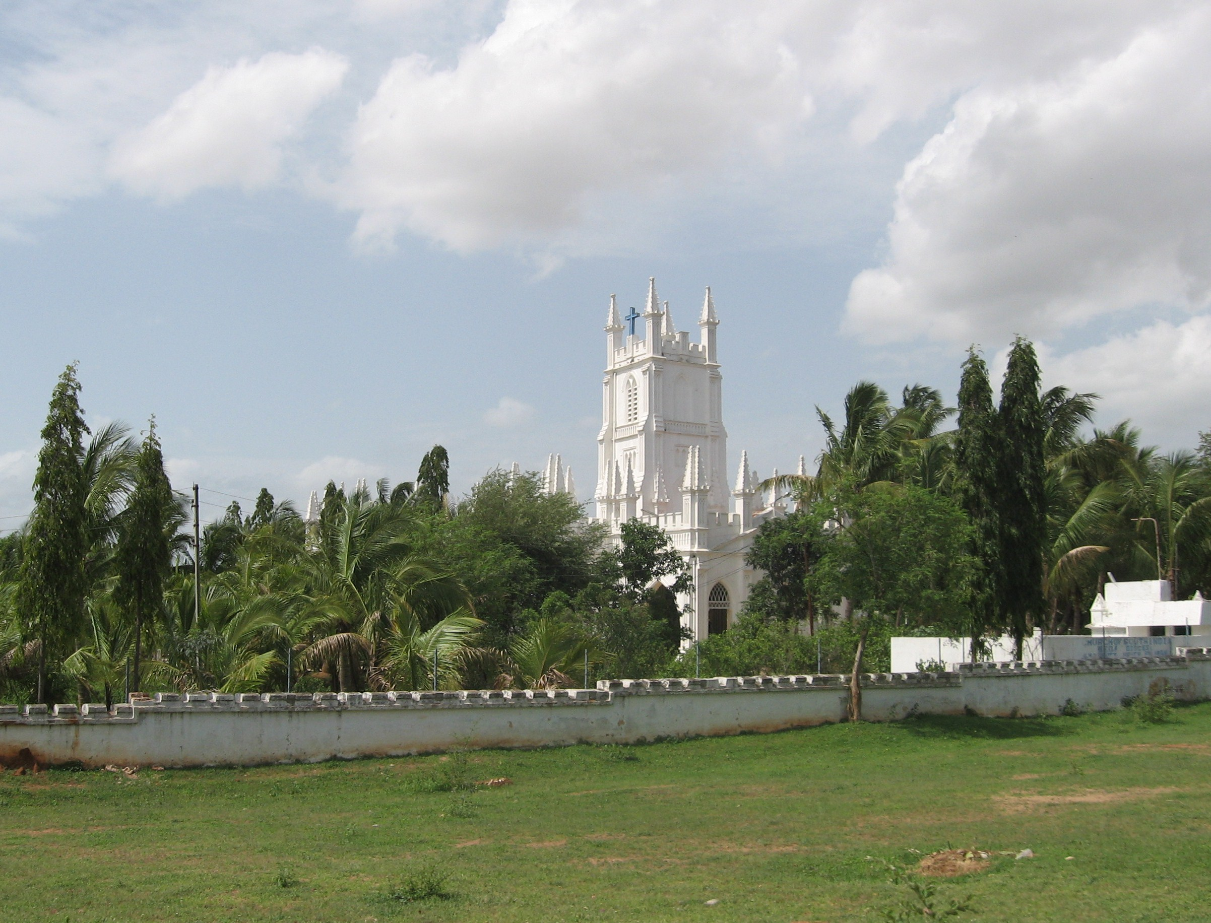 own work